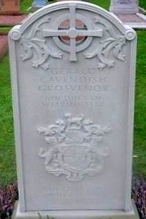 St Mary's Church Eccleston, Old Churchyard - grave of Gerald Grosvenor, 6th Duke of Westminster. Note the Grosvenor coat of arms on the grave stone; the shield is encircled with the Order of the Garter, of which the 6th Duke was a member.